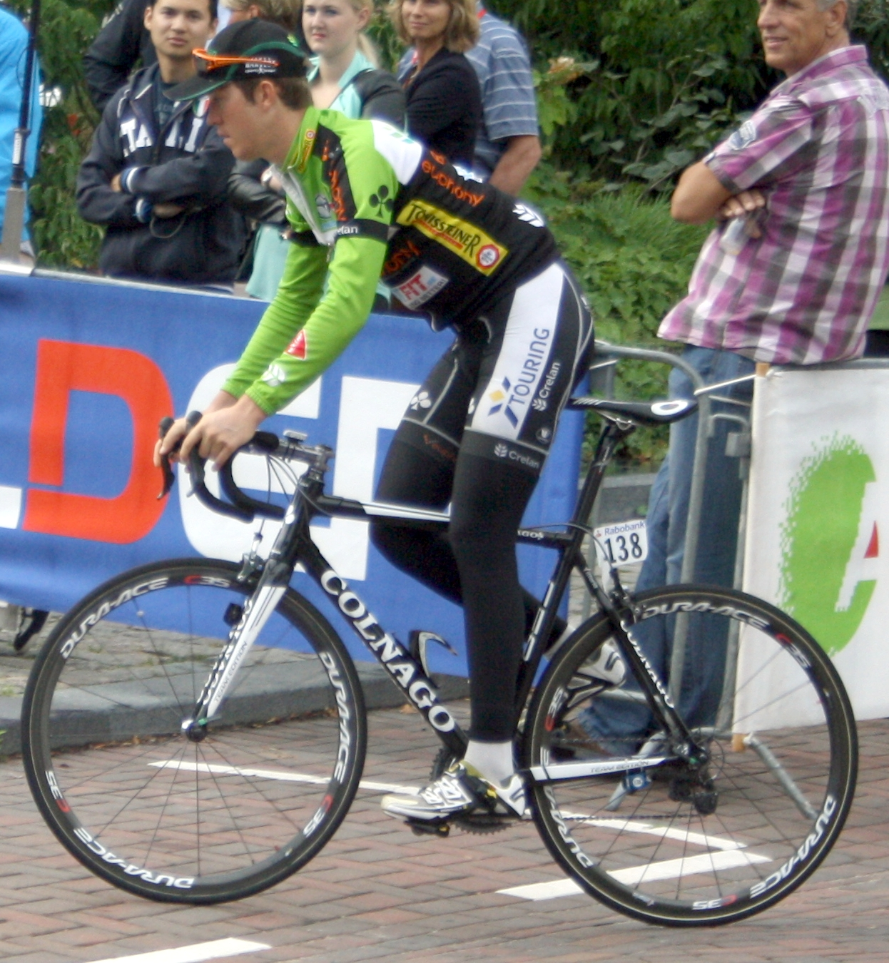 Klaas Sys before the start of stage 2 of the World Ports Classic 2013